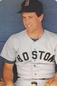 Image cropped from a baseball card of Marty Barrett from the 1986 Boston Red Sox Photo Cards set.